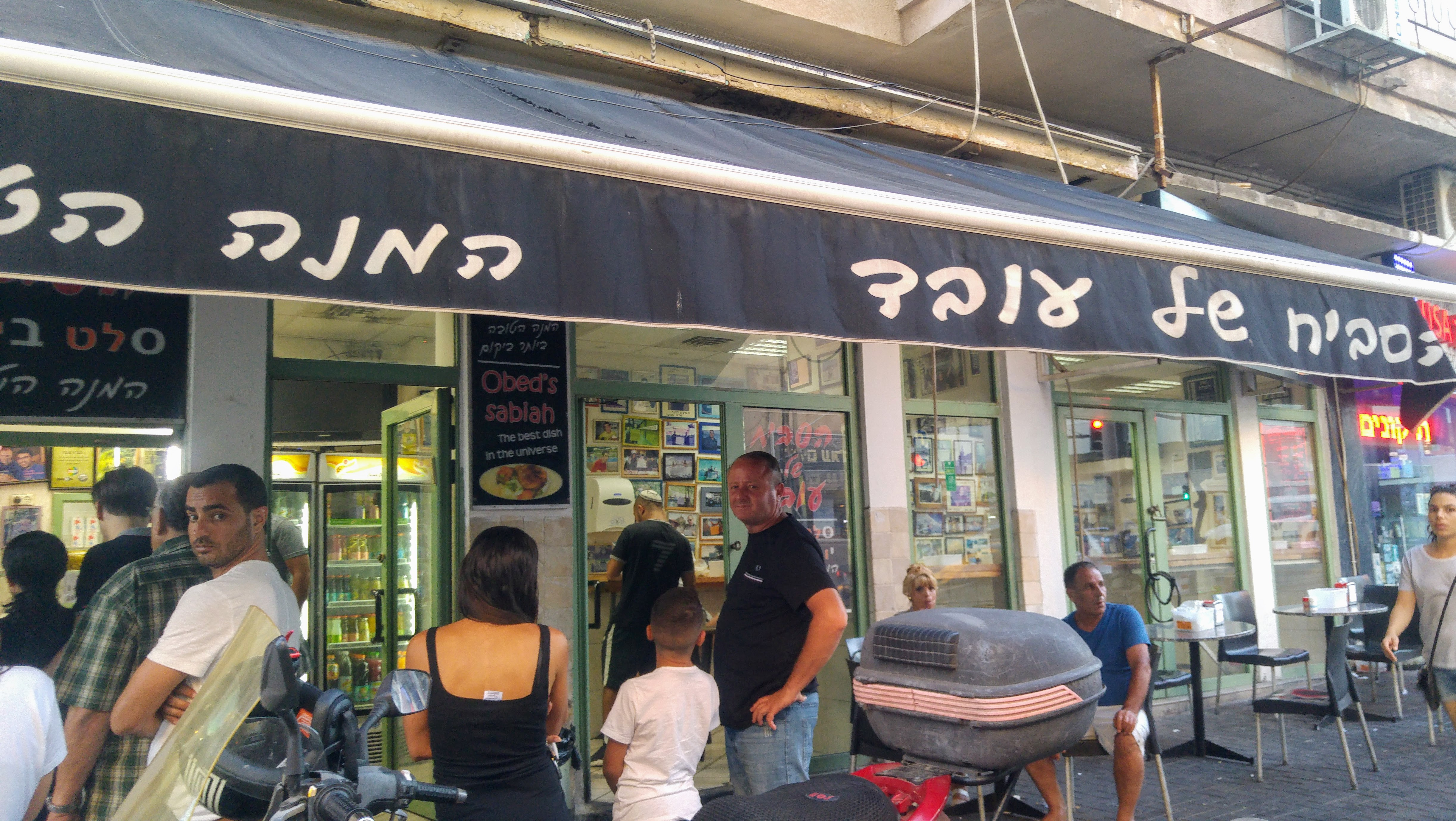 Ovad's Sabich", a famous restaurant in Giv'atayim.